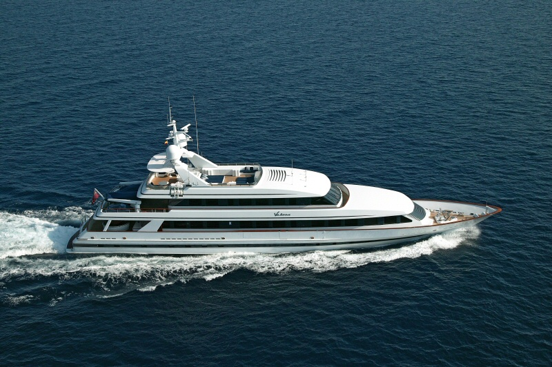 I did that photo a while back and it was used by so many newspapers and in articles it's really astonishing to me. So here it is for everybody to see and share! :-)